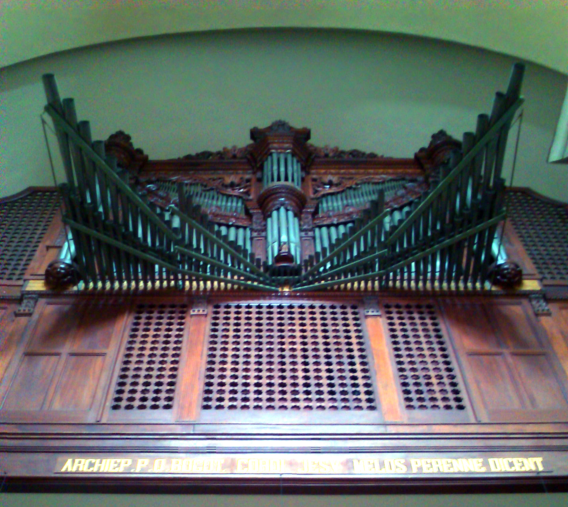 OrganofthePrimacyCathedralofColombia